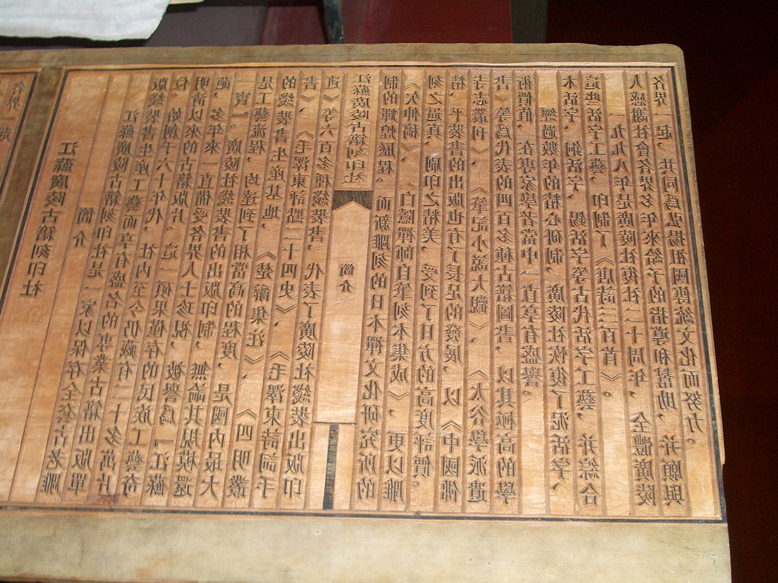 A woodblock of the kind that was used by Yangzhou's printshops of the past for printing books. From the collection of the China Block Printing Museum in Yangzhou